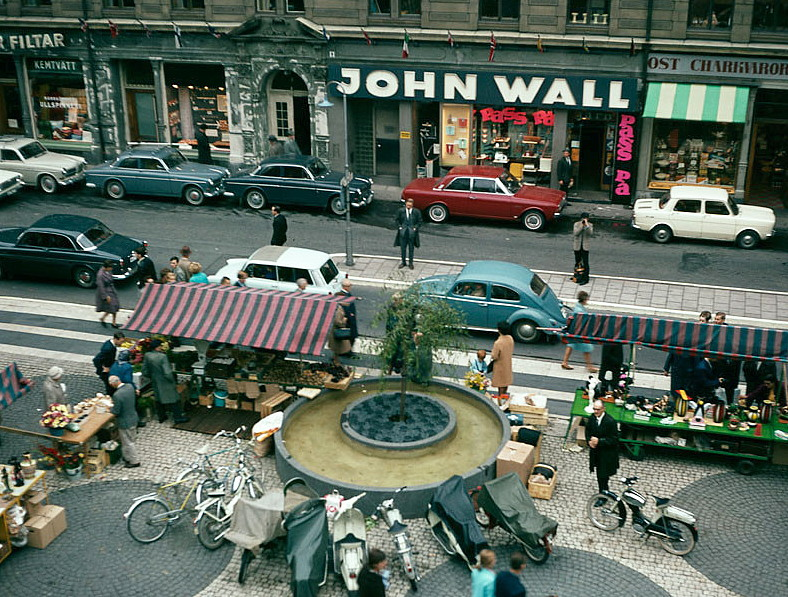 FOTOGRAFILilla Hötorget och John Wall, Slöjdgatan 9. 1965-1965FOTOGRAF: Gram, Ingemar (Trädgårdsmästare).BILDNUMMER: DIA 13687Stadsmuseet i Stockholm